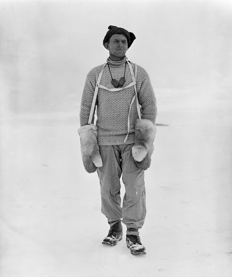 Jens Tryggve Herman Gran MC (January 20, 1889 - January 8, 1980), Norwegian aviator, explorer and author, member of Robert Falcon Scott's antarctic expedition of 1910-1913, the Terra Nova Expedition